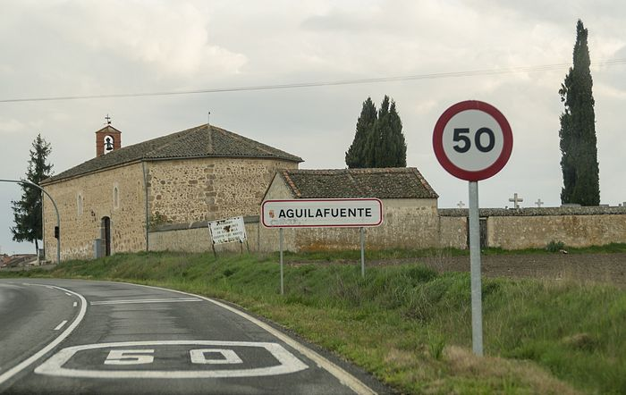 Entrada a Aguilafuente y ermita